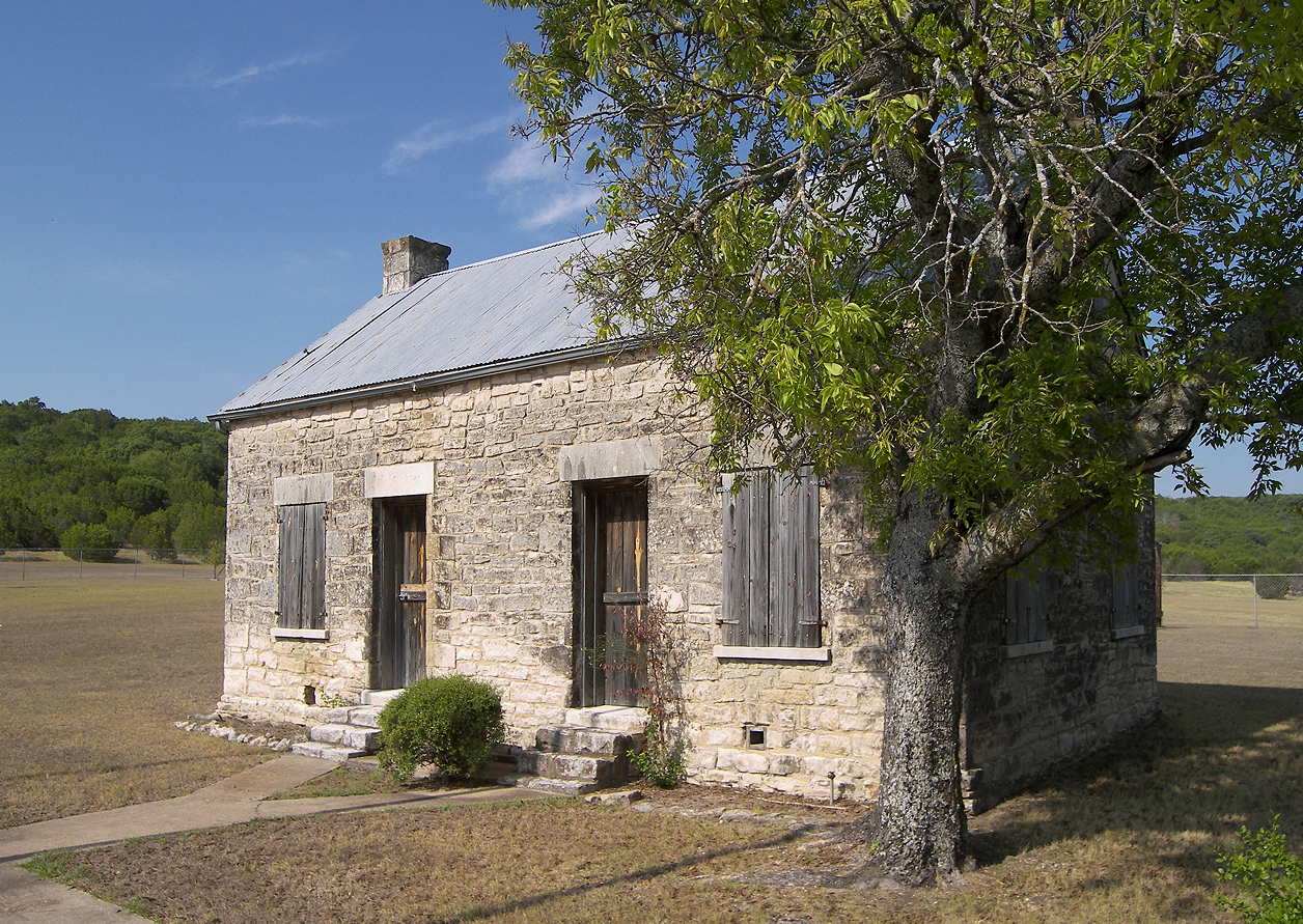 The Copperas Cove Stagestop and Post Office in Copperas Cove, Texas, United States was built in 1878. It was listed on the National Register of Historic Places on September 26, 1979.